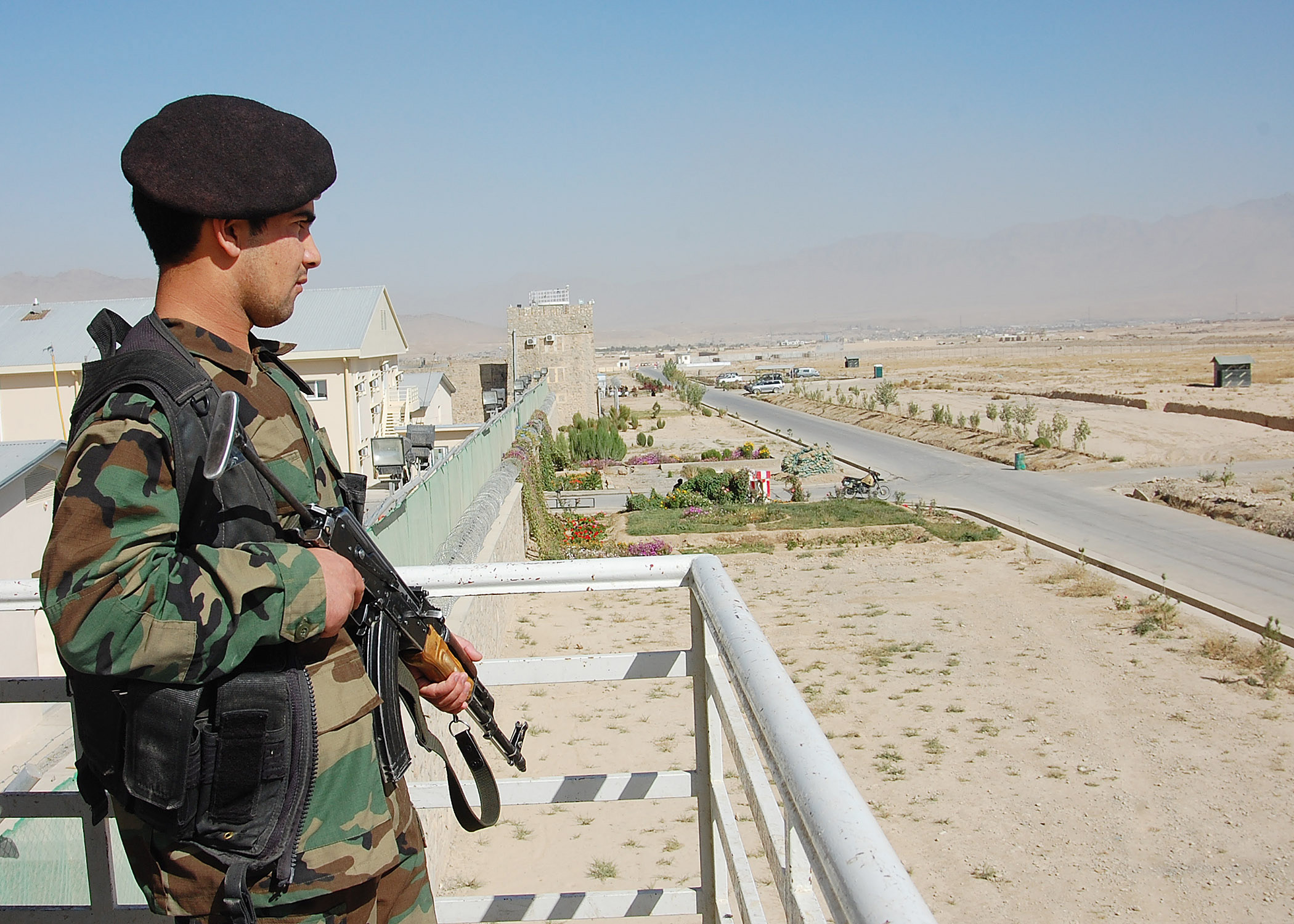 An guard assigned to the Afghan National Detention Facility in Kabul, Afghanistan, stands watch over the perimeter of the compound. The ANDF keeps more than 300 detainees in confinement, with more than 400 guards assigned.